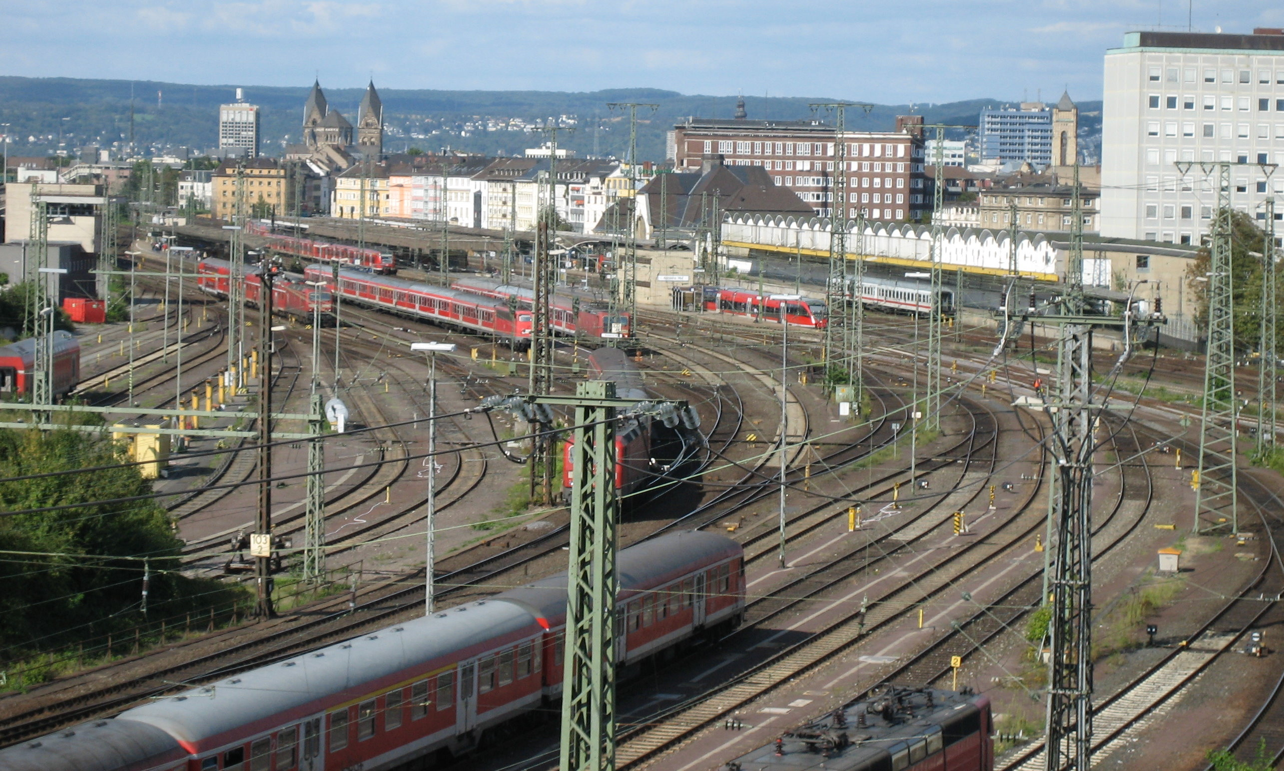 Koblenz: Railways near Koblenz main station.